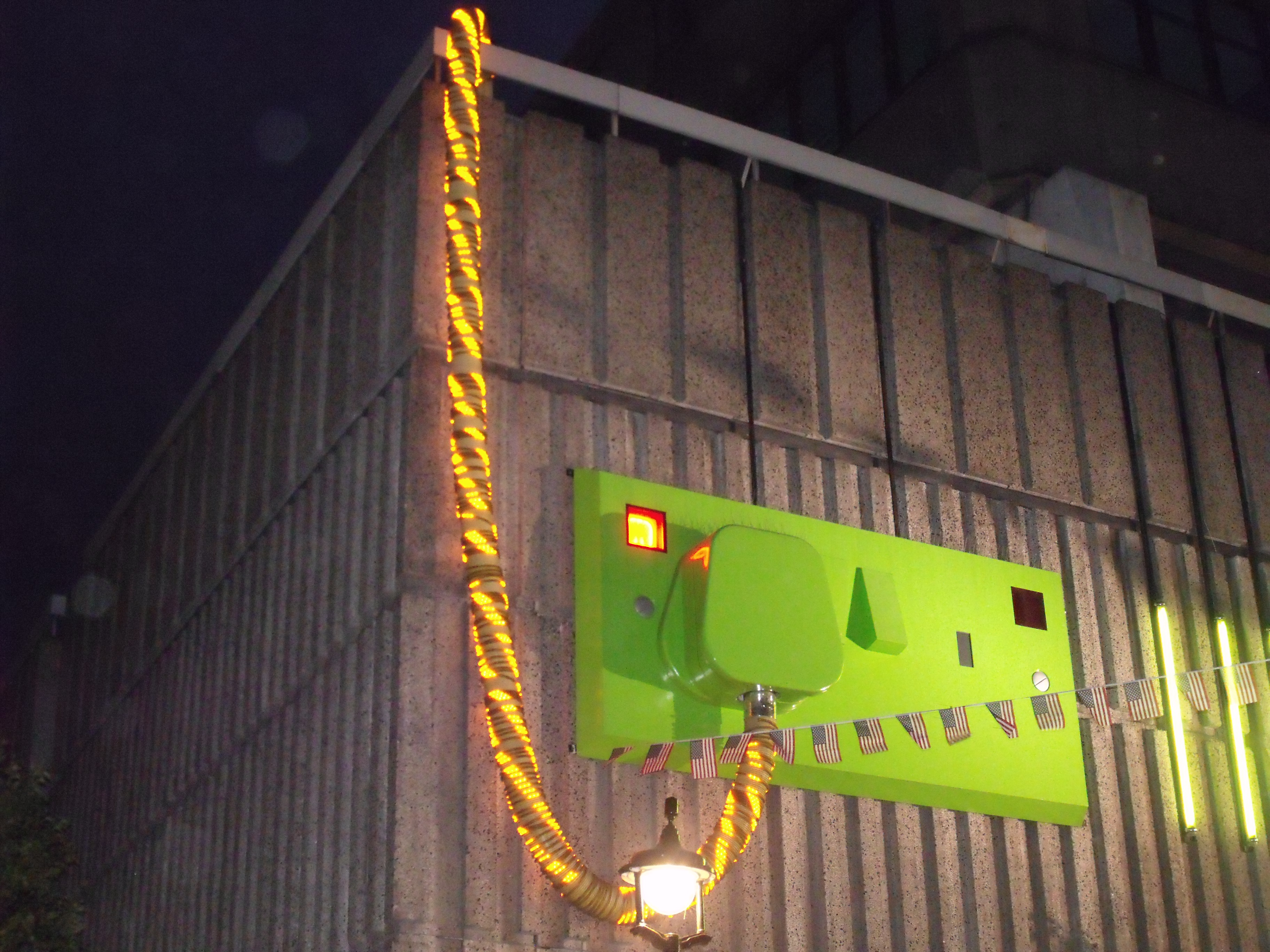 Second evening in London, before going to theatre to see Sister Act. Mostly experiental shots. Some came out too dark, some good. You never know what you will find walking around London. Here I found a green plug socket and plugged in plug on the wall on Ganton Street. Hmmm more American flags.